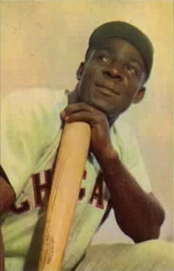 Chicago White Sox left fielder Minnie Miñoso.